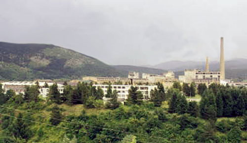 Industry